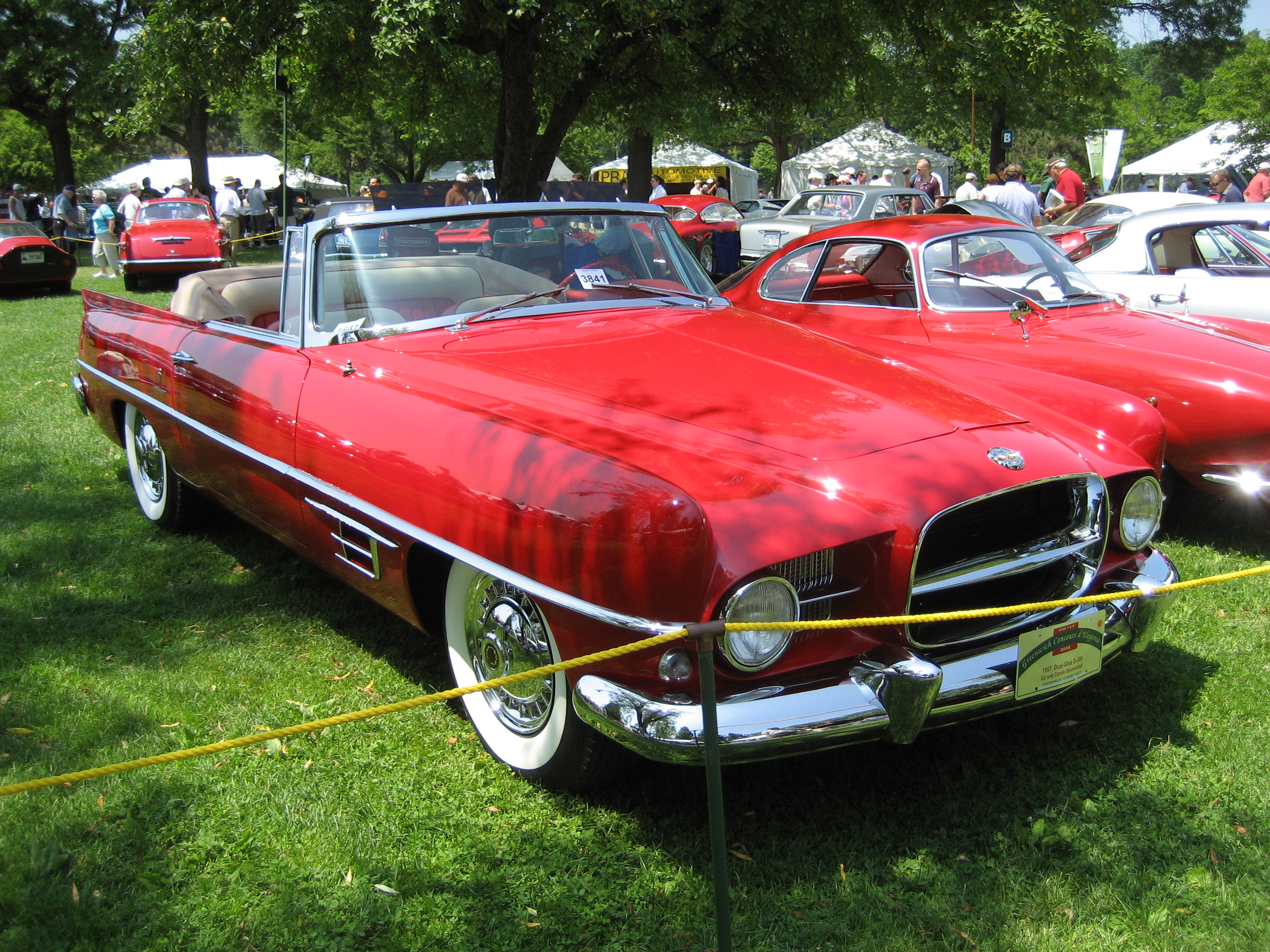 1957 Dual-Ghia D-500 photographed at the 2008 Greenwich Concours d'Elegance in Greenwich, Connecticut.